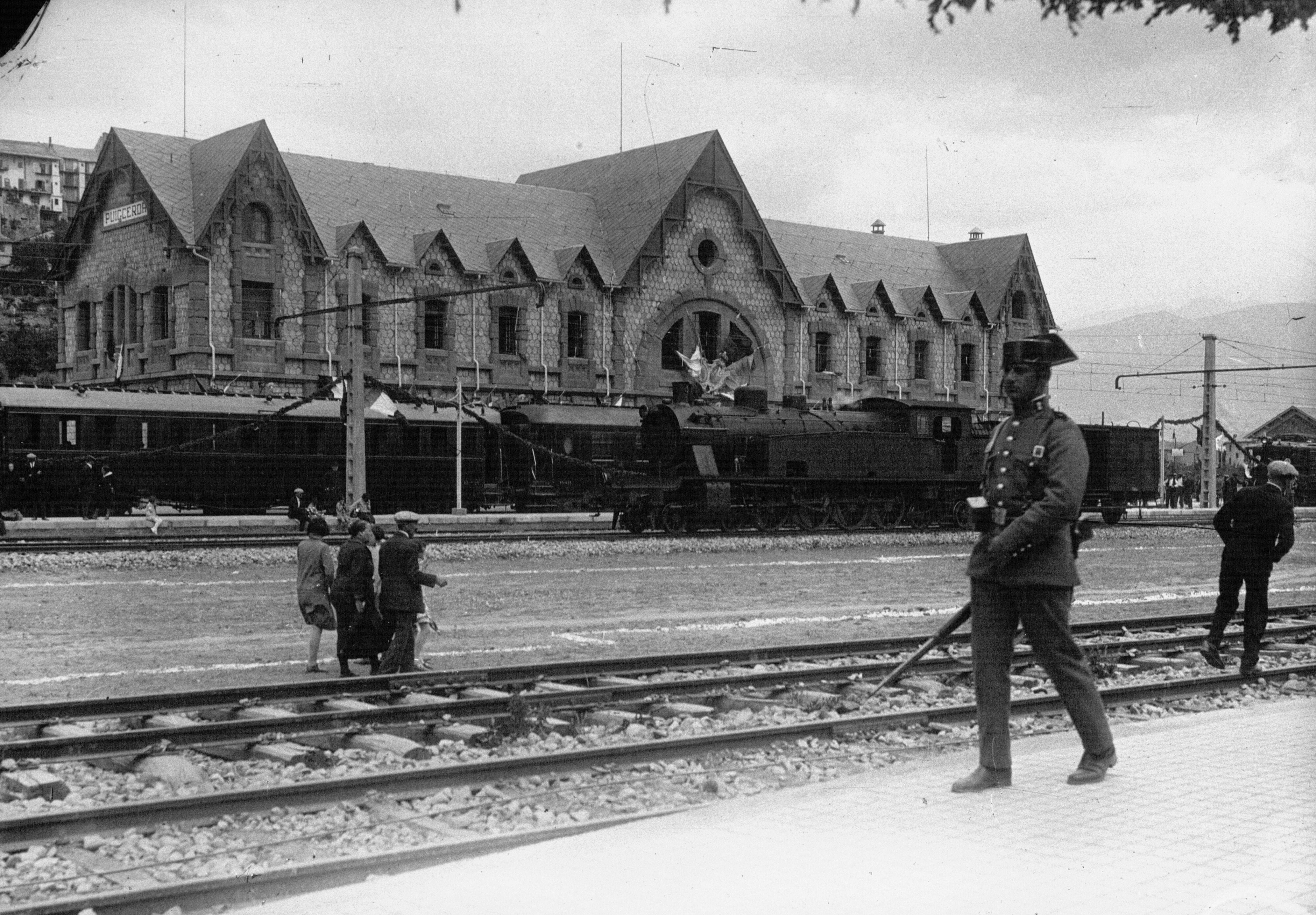 Puigcerdà's train station (Catalonia, Spain).